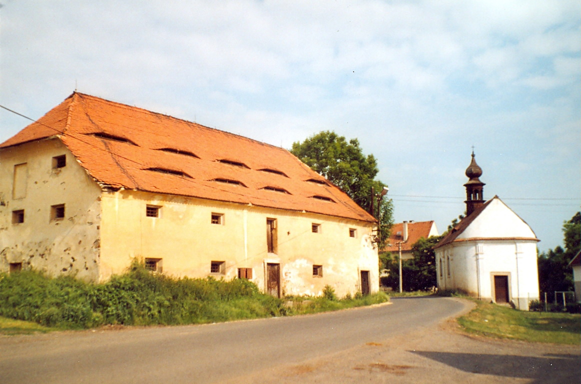 Chapel of Saints John and Paul in Oploty